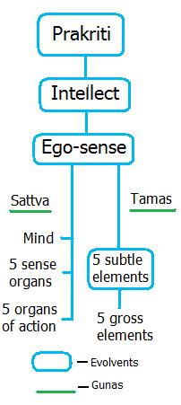 A chart depicting the theory of evolution of various substances from Prakriti (nature) in the Samkhya, the dualistic school of Indian philosophy.